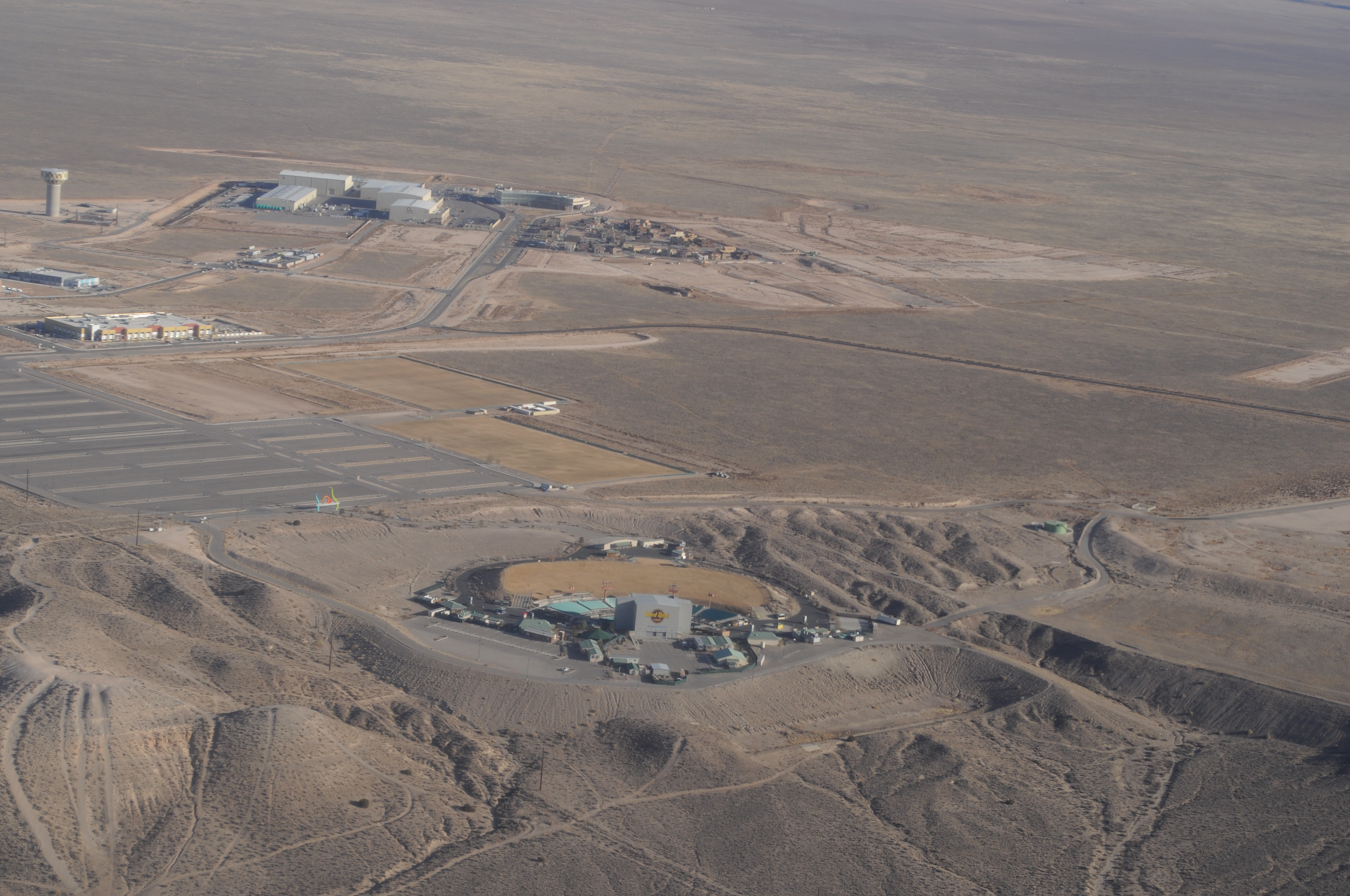 Aerial view of Hard Rock Pavilion, Albuquerque, New Mexico, USA..